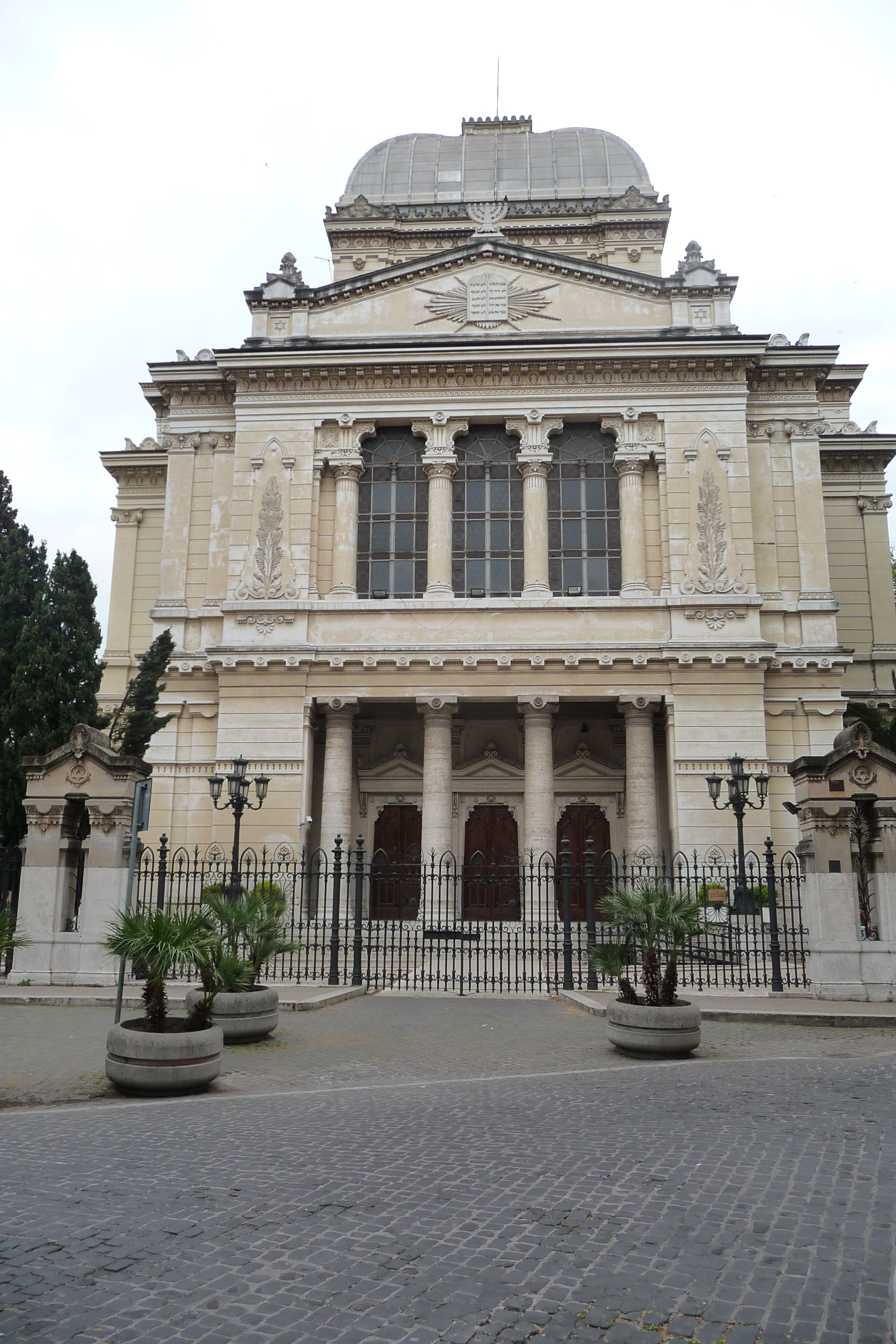 Synagogue in Rome